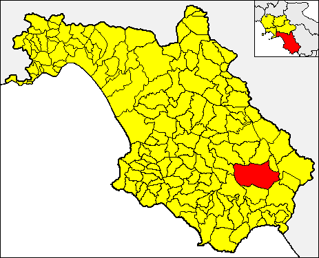 Locator map of the municipality of Sanza (red) within the Province of Salerno